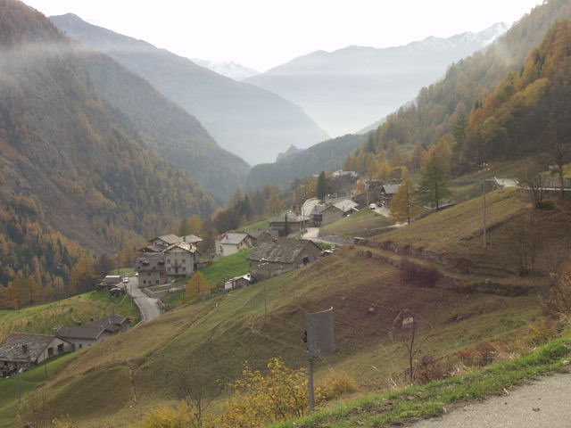 Overview of Bionaz Valley (Aosta Valley, Italy)